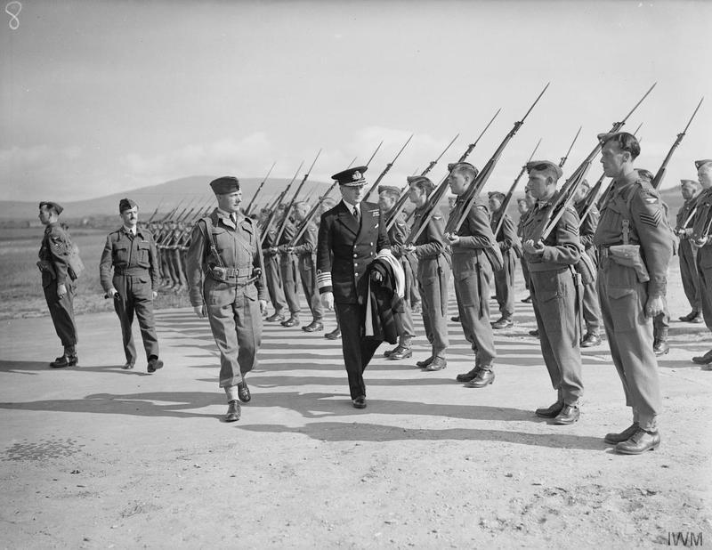 Admiral Sir Percy Noble inspecting member of the RAF Regiment, RAF Ronaldsway, June 11, 1942